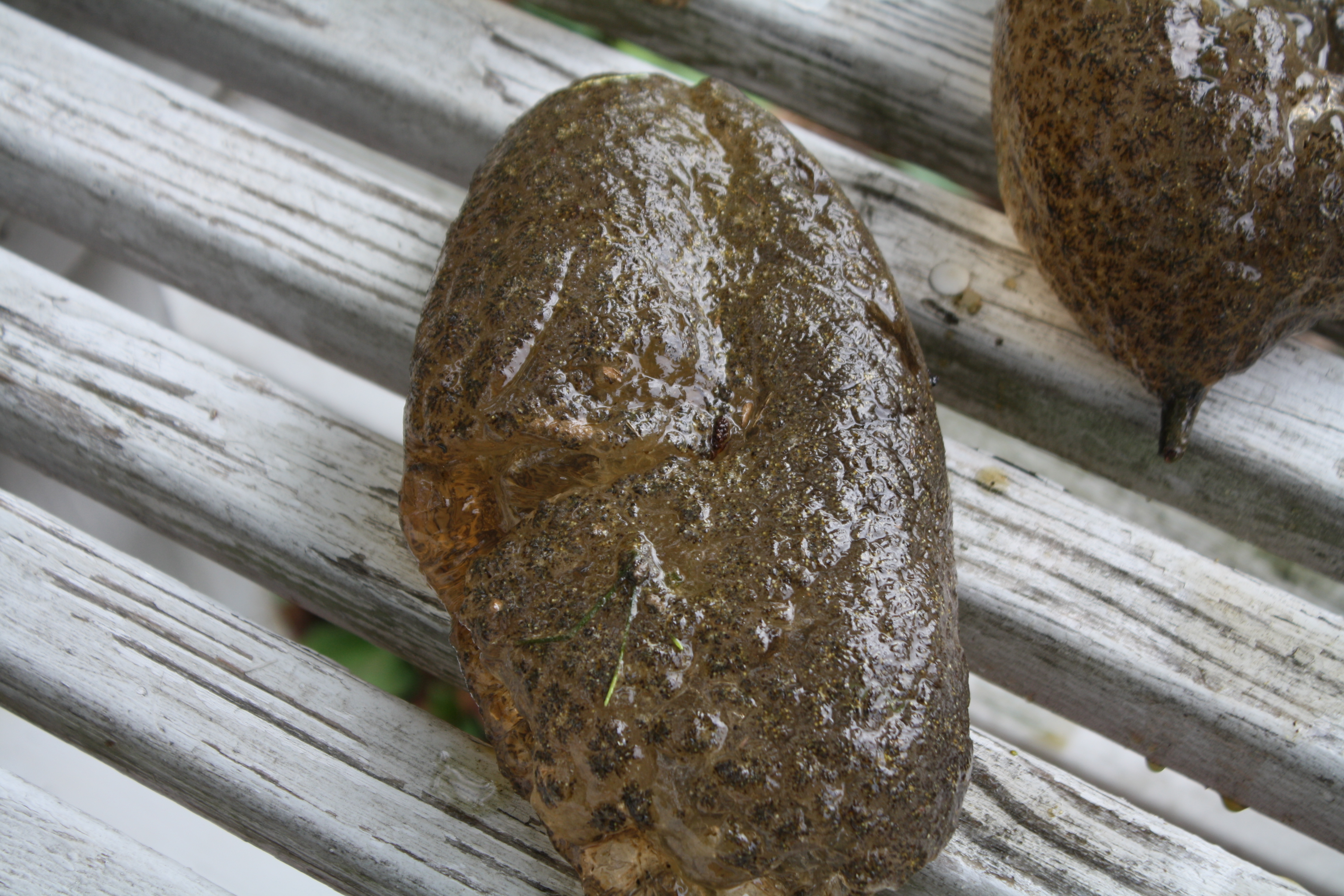 Image of a Pectinatella magnifica